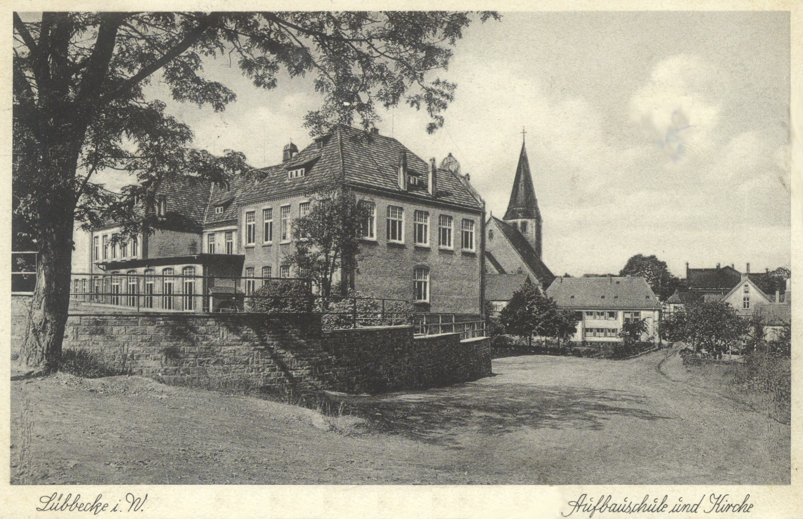 Aufbauschule Lübbecke at Geistwall. The photo shows the building in the period after the renewal at the beginning of the thirties till the enlargement after 1953. The building is pulled down.